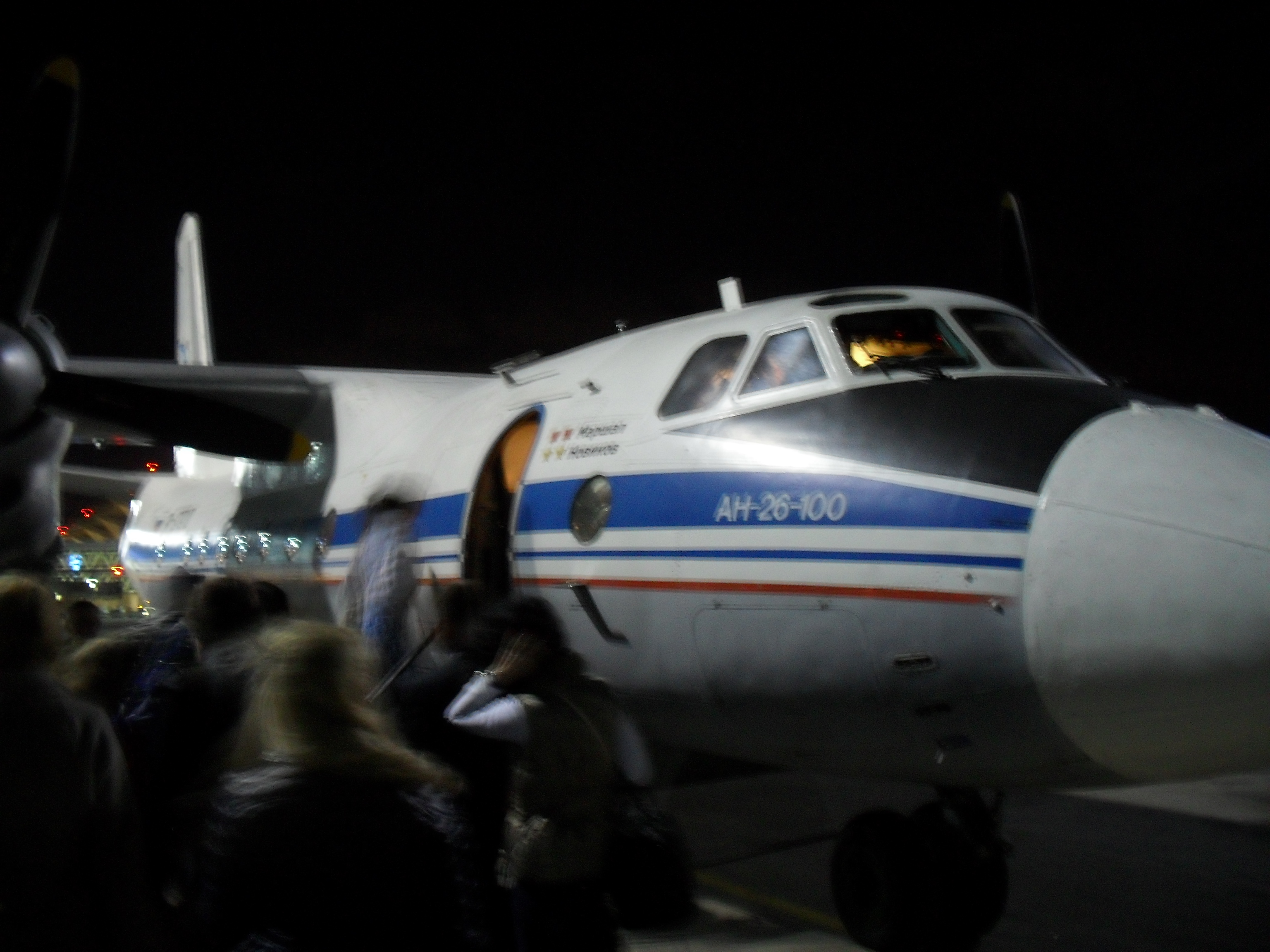 The photo shows Antonov-26 plane of Kostromskoye Aviapredpriyatie airline parked at Pulkovo Airport ready to depart to Kostroma city to deliver user:ssr to Category:Kostroma Wiki-Conference 2015